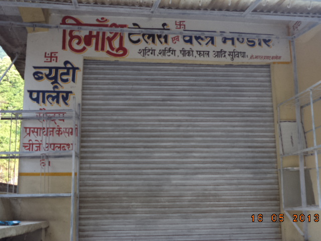 Himansshu Vastra Bhandar